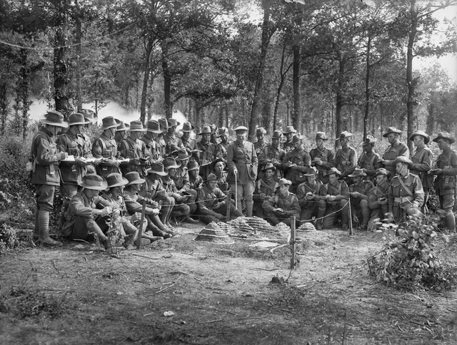 AWM caption : France: Picardie, Somme, Allonville. A class in Map (Relief) Reading at the 8th Brigade Infantry School AIF. Back row, left to right: Company Sergeant Major (CSM) E. G. McKinnon, 30th Battalion Sergeant (Sgt) A. L. Anderson, 30th Battalion Sgt G. Bishop, 32nd Battalion (behind) Sgt T. McGovern MM, 32nd Battalion Sgt F. C. Sharman, 30th Battalion (behind) Sgt H. A. Luckweld, 32nd Battalion Sgt Bedford, 31st Battalion Corporal (Cpl) Ballingal, 29th Battalion Cpl Crispo, 30th Battalion Cpl Jones, 30th Battalion Cpl Coucher, 30th Battalion Cpl Henzenroeder, 32nd Battalion (behind) Sgt H. Gordon DCM, 32nd Battalion unidentified Cpl Rankin MM & Bar, 29th Battalion unidentified (behind) Sgt Metcalfe, 30th Battalion Cpl C. M. R. Sinclair, 32nd Battalion 3012 Lance Corporal (L Cpl) Frank Phillips, 31st Battalion Sgt Gooding, 30th Battalion Cpl Kimberley, 29th Battalion L Cpl H. Clarke, 31st Battalion Front row: Cpl Baker, 31st Battalion unidentified Cpl Matthews, 29th Battalion Sgt McConnell DCM MM, 29th Battalion Pte Brunker, 31st Battalion Pte J. McGann, 31st Battalion Pte L. Woods, 31st Battalion Cpl Hopper, 31st Battalion (in front) CSM Cowen DCM, 30th Battalion W. Morpeth MC, 31st Battalion 4005 Sgt R. A. C. Wohlsten, 32nd Battalion Sgt S. Smith, 32nd Battalion (in front) Sgt McKenzie, 29th Battalion Cpl McGhie, 31st Battalion Cpl Love, 29th Battalion Sgt A. Cook MM, 29th Battalion CSM A. T. Halse, 31st Battalion